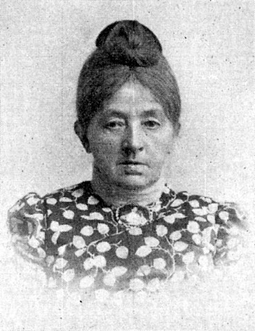 Photograph of the Greenlandic author and ethnologist Signe Rink (1836-1909)